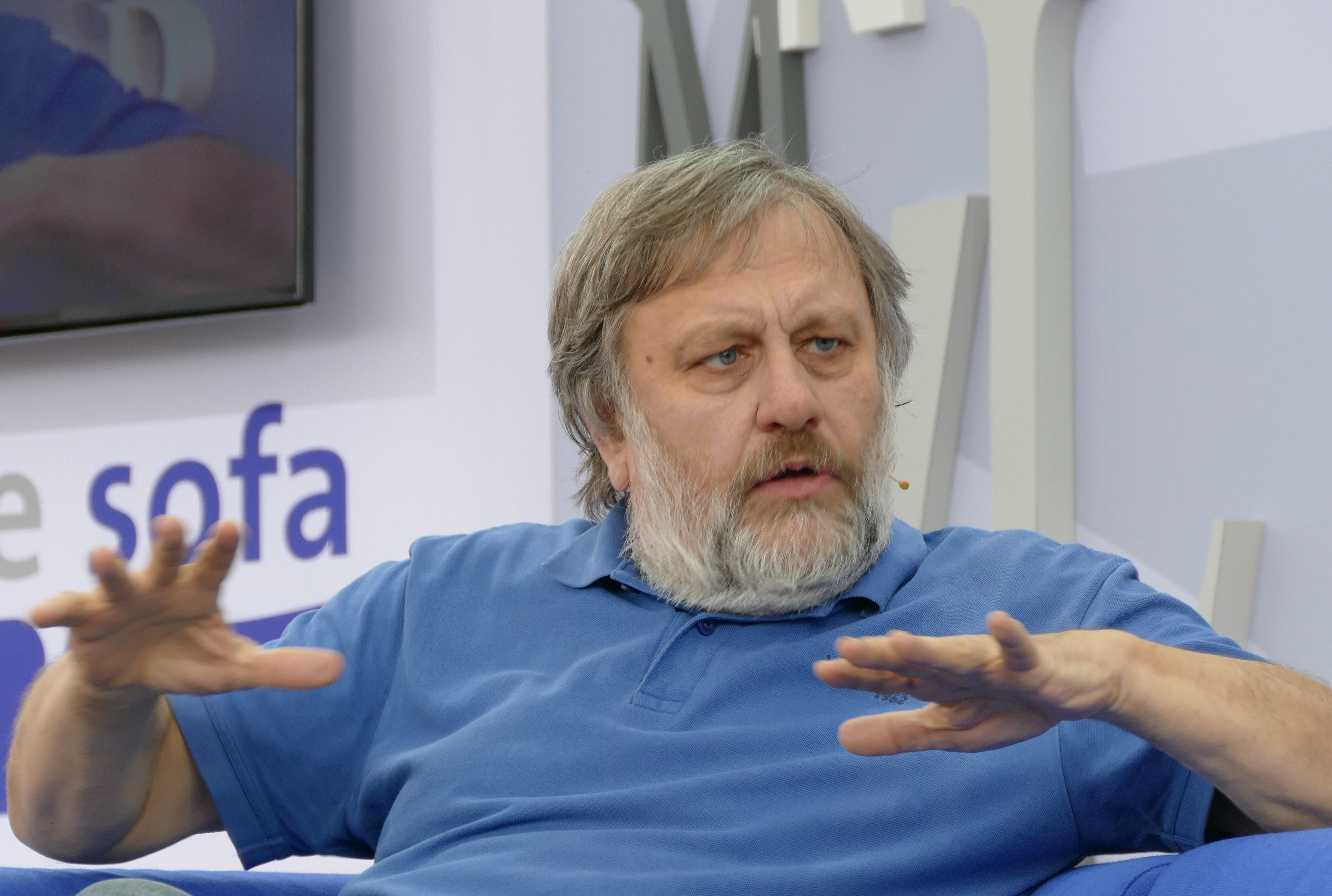 Slovenian philosopher Slavoj Žižek 2015 at the Bookfair of Leipzig presenting his new book "Some Blasphemic Reflexions"